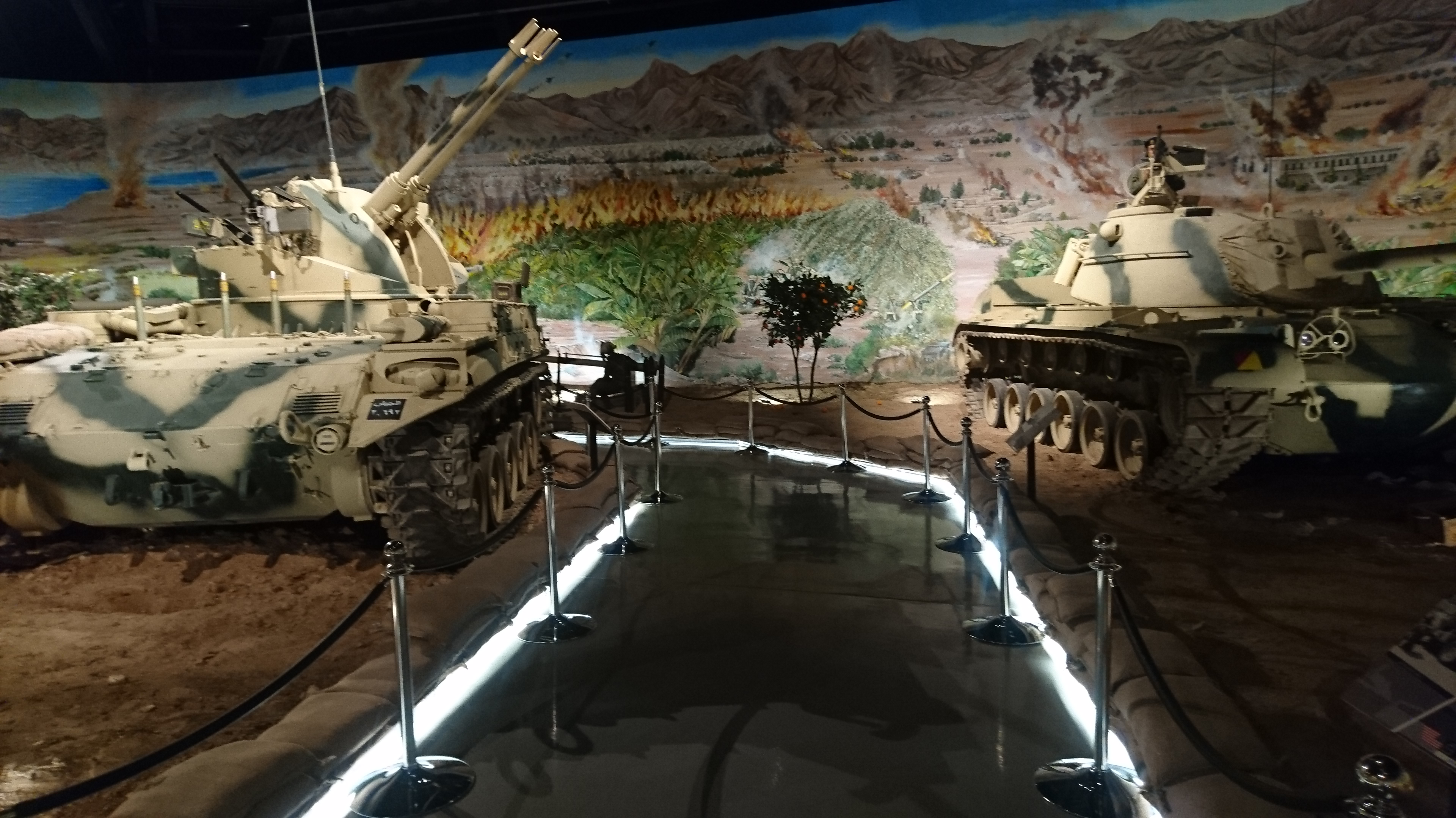 Royal Tank Museum